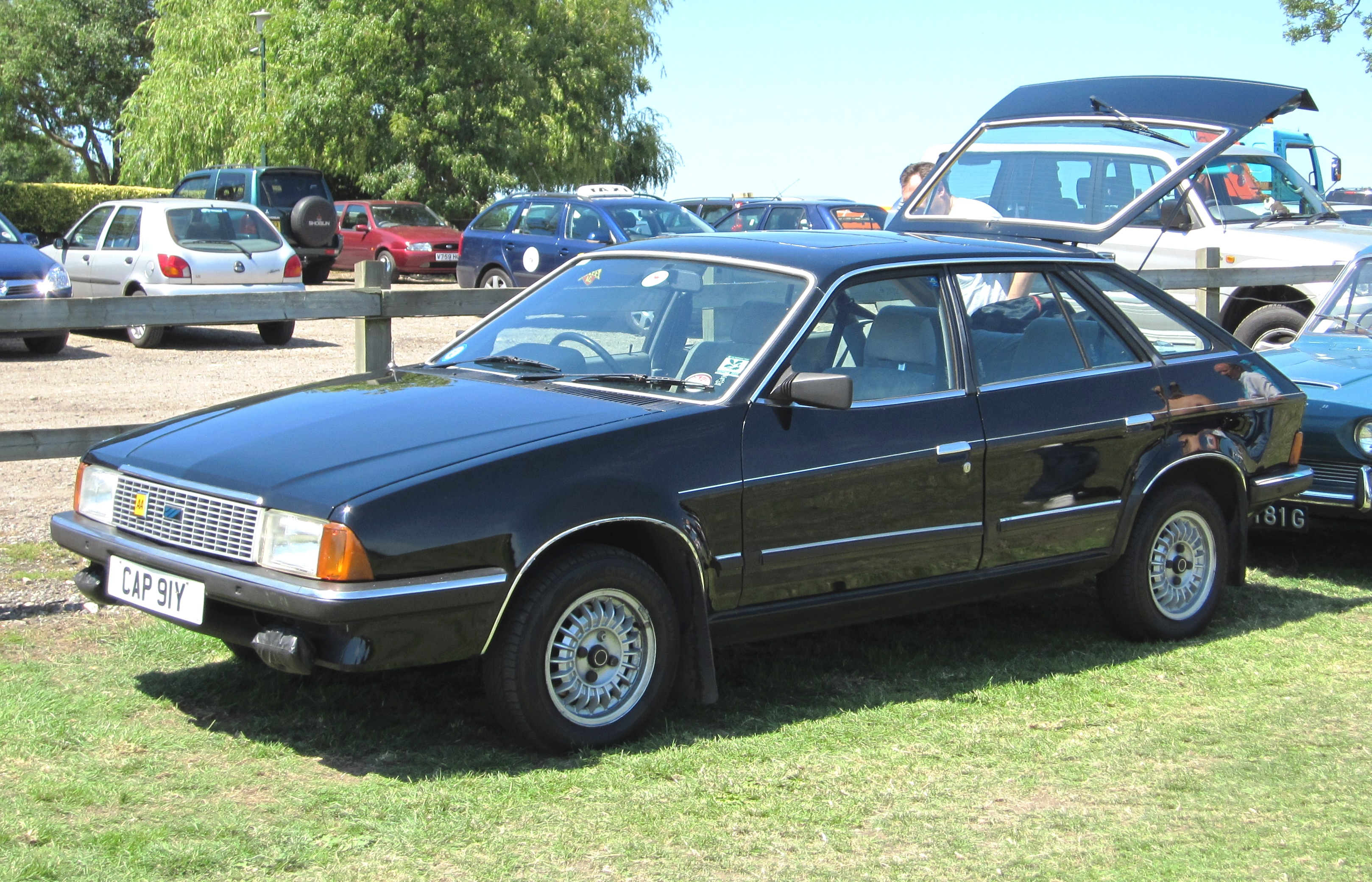 Austin Ambassador in Essex